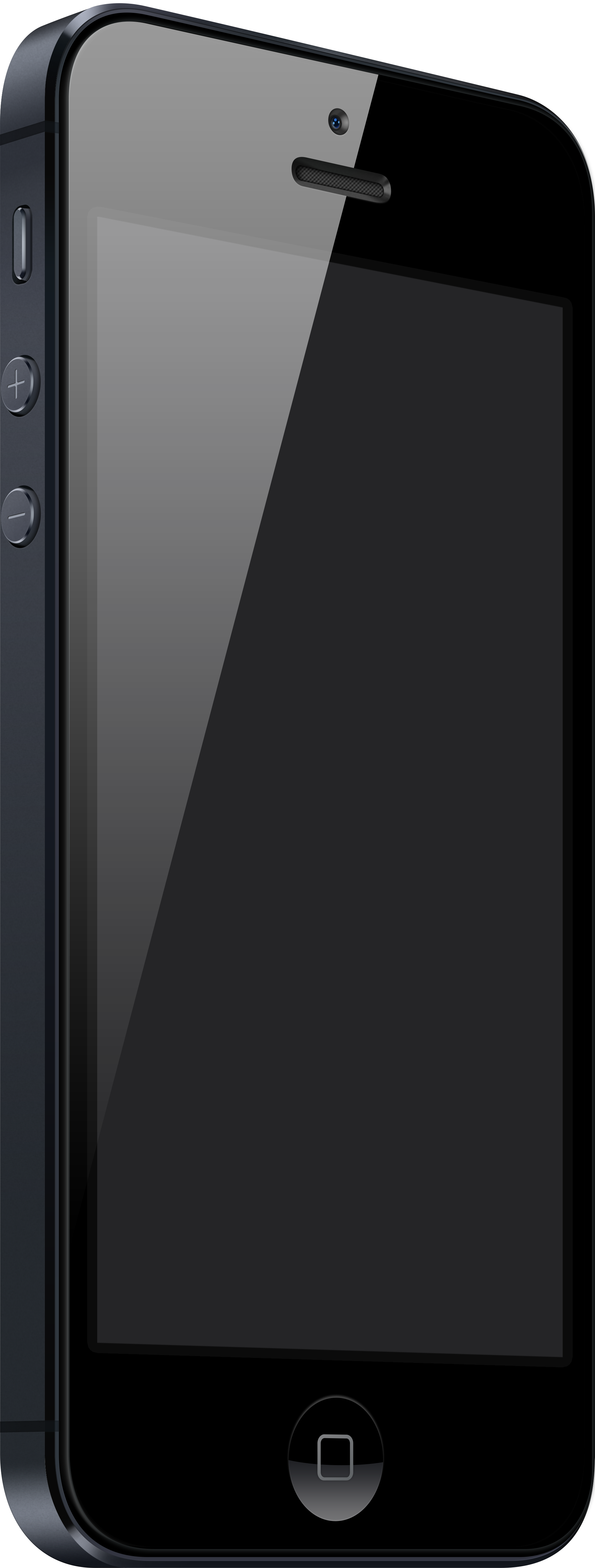 Apple iPhone 5 in black, image rendered